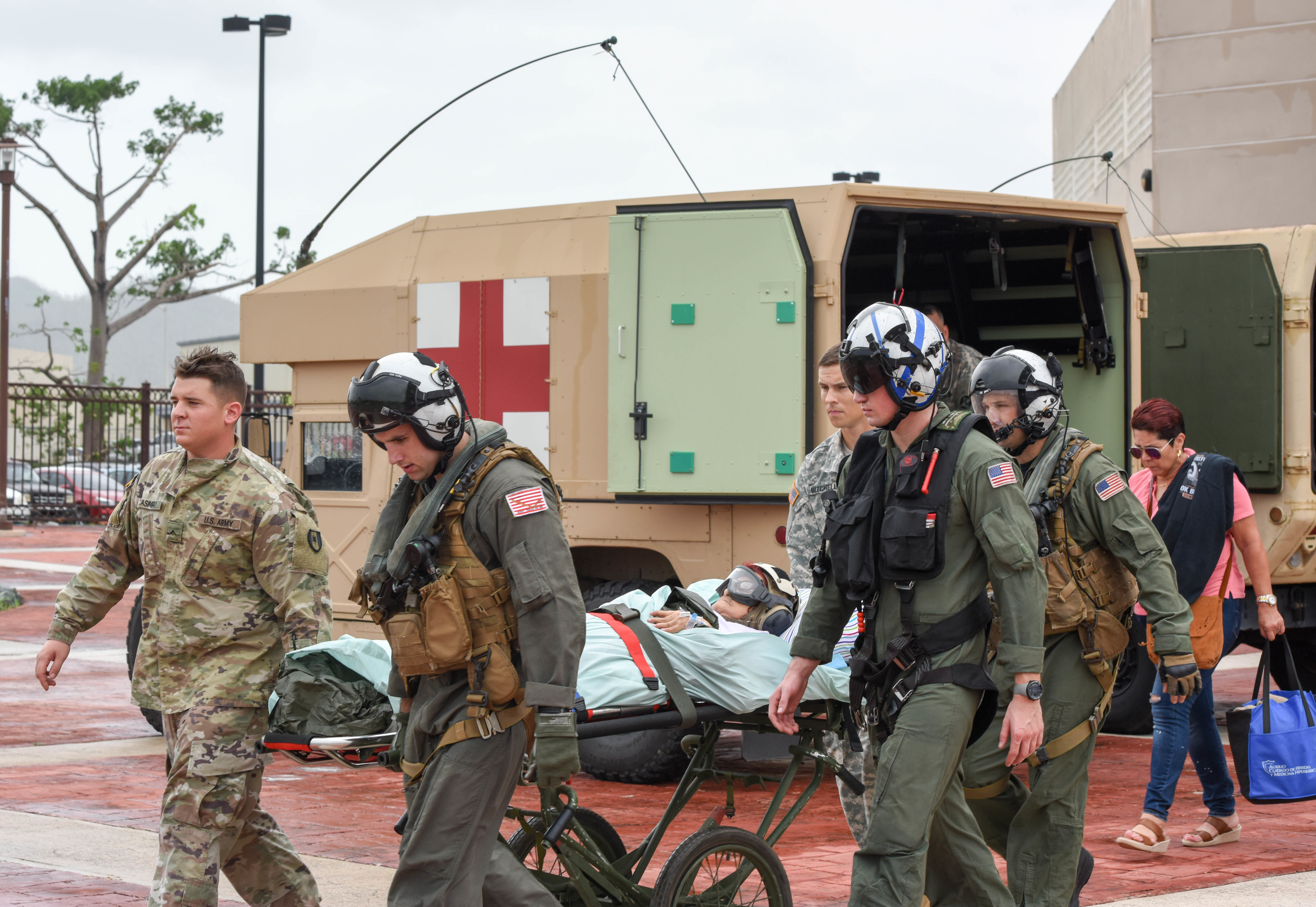 A patient is transferred to the USNS Comfort (T-AH 20) from the 14th Combat Support Hospital in Humacao, Puerto Rico, Oct. 18, 2017. The 14th CSH is helping to provide medical care to those in need after the devastation of Hurricane Maria. (U.S. Air Force photo by Capt Christopher Merian)